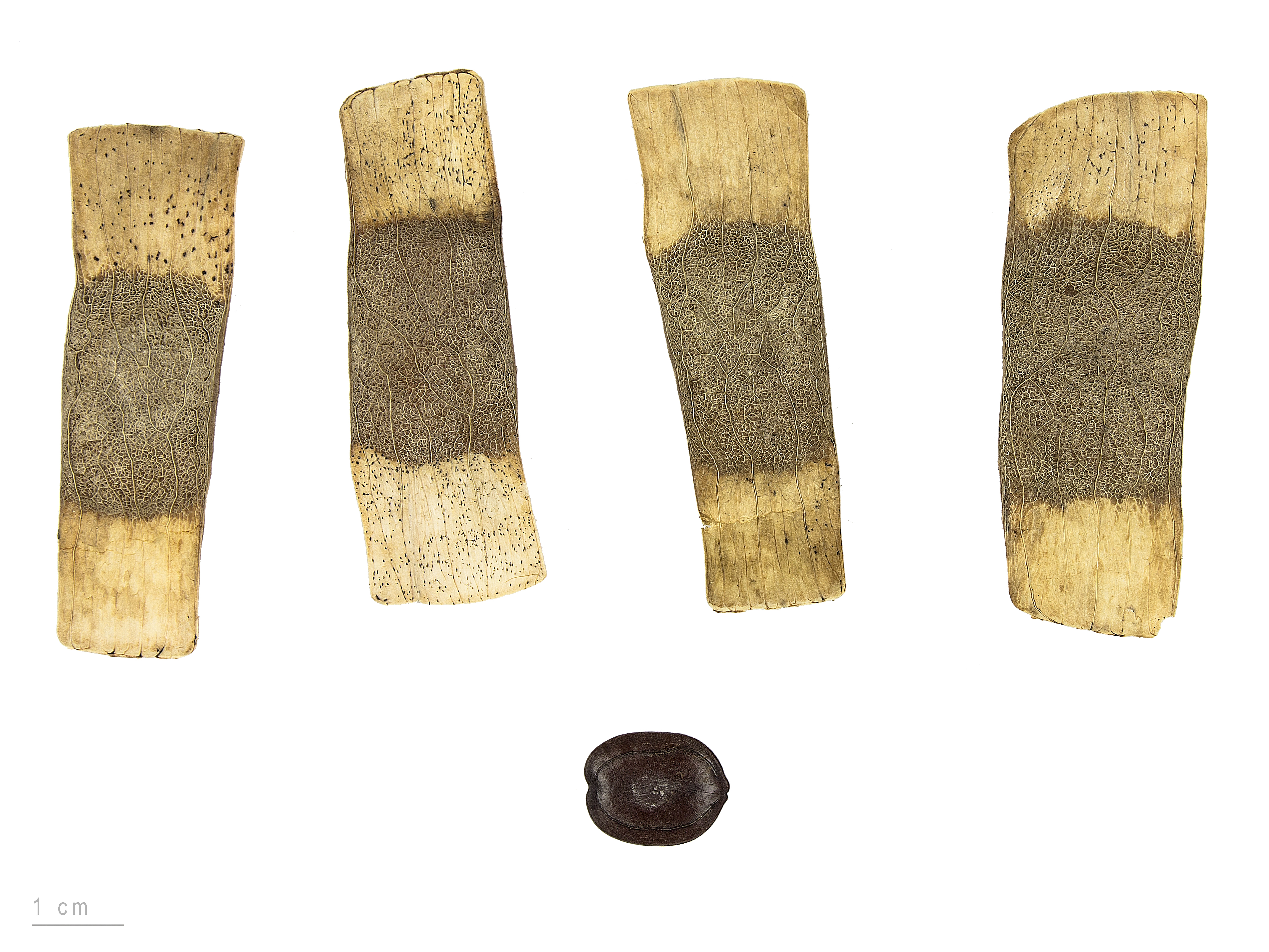 Entada polyphylla, Callingcard Vine, seeds